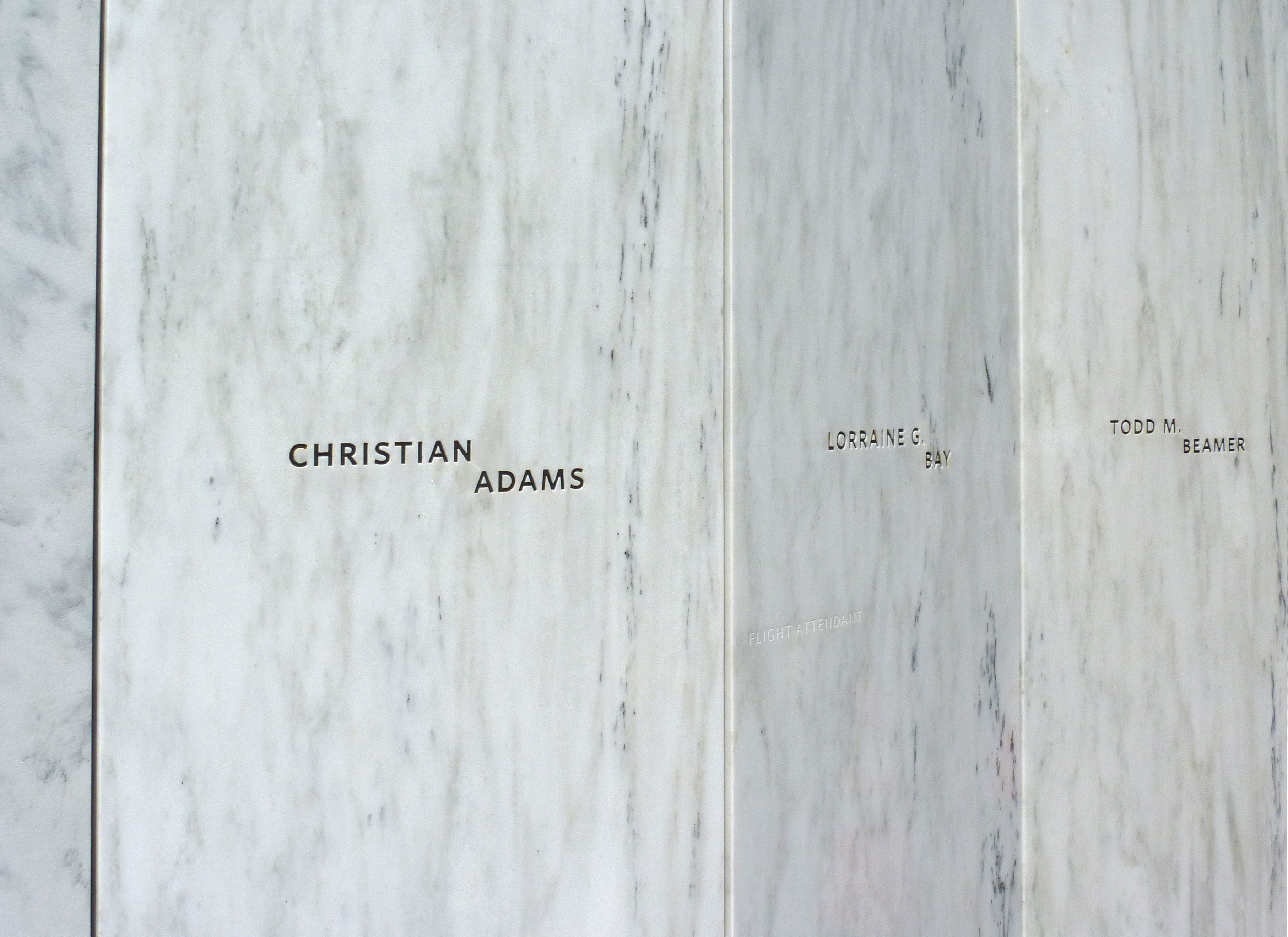 Inscribed marble name panels for Christian Adams, Lorraine G. May (flight attendant) and Todd M. Beamer at the Wall of Names, Flight 93 National Memorial